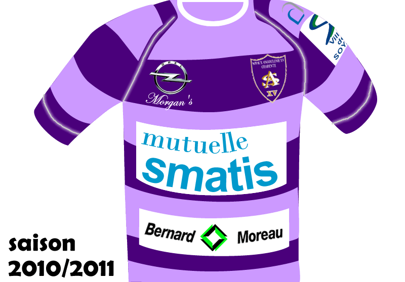 Couleur maillot SAXV CHARENTE